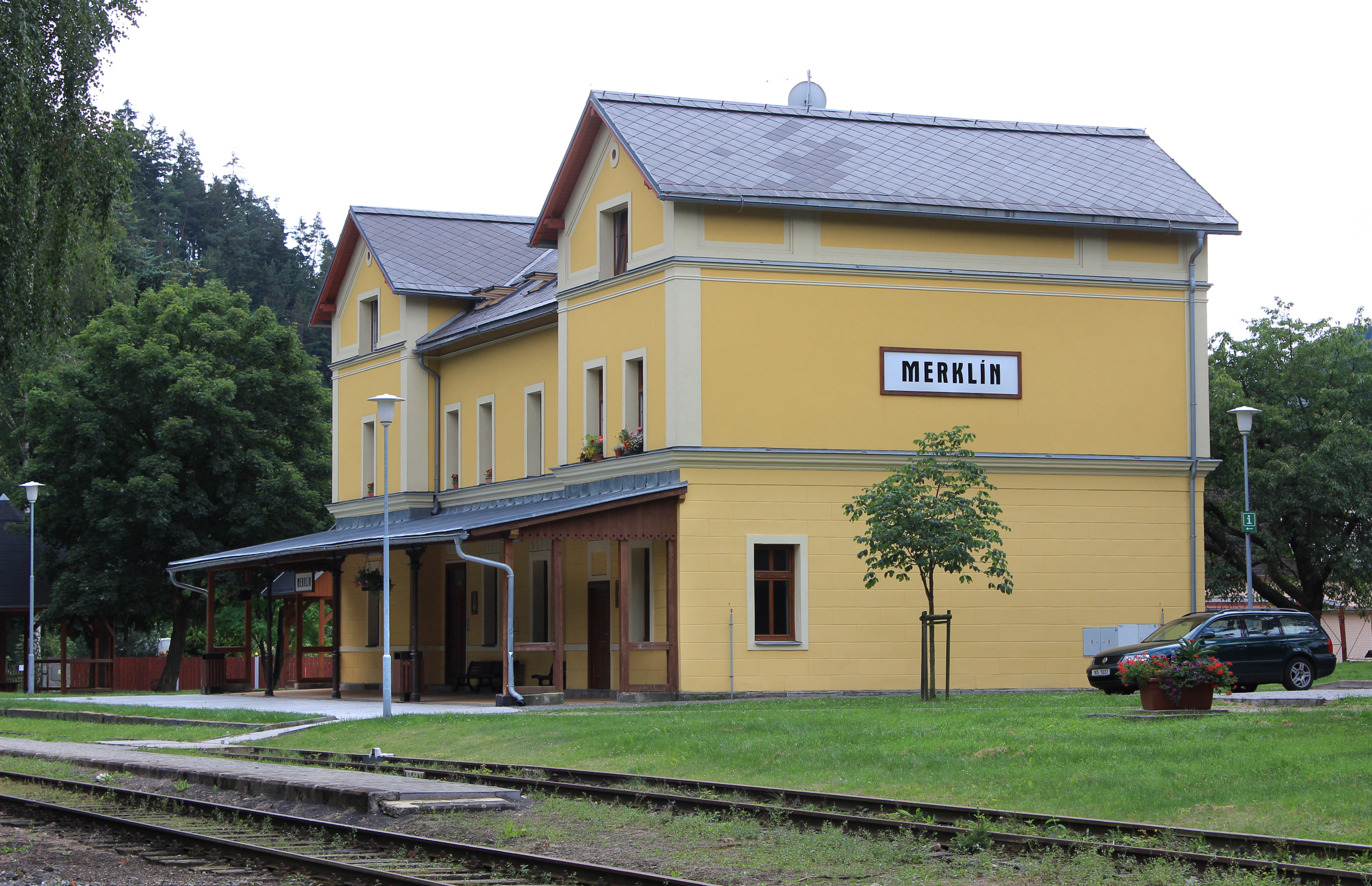 Railway station in Merklín, Czech Republic.